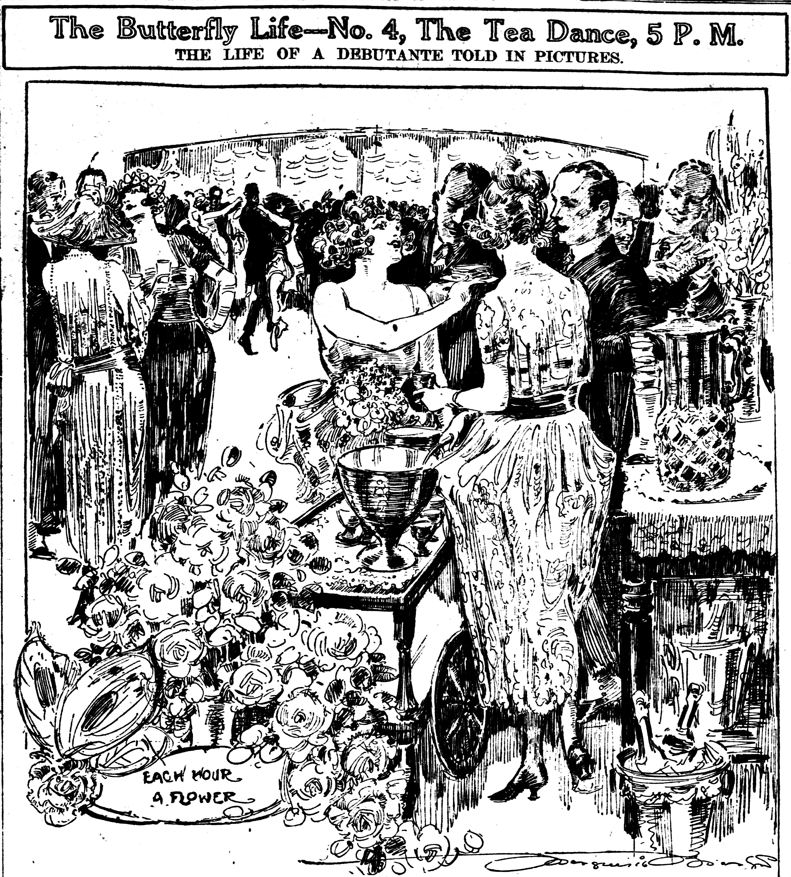 Tea dance as pictured by Marguerite Martyn and published in the St. Louis Post-Dispatch on January 10, 1920. Shows a crowd of people dancing and socializing. Debutante in center is serving drinks from a trolley. Men at right are pouring a drink from a flask.